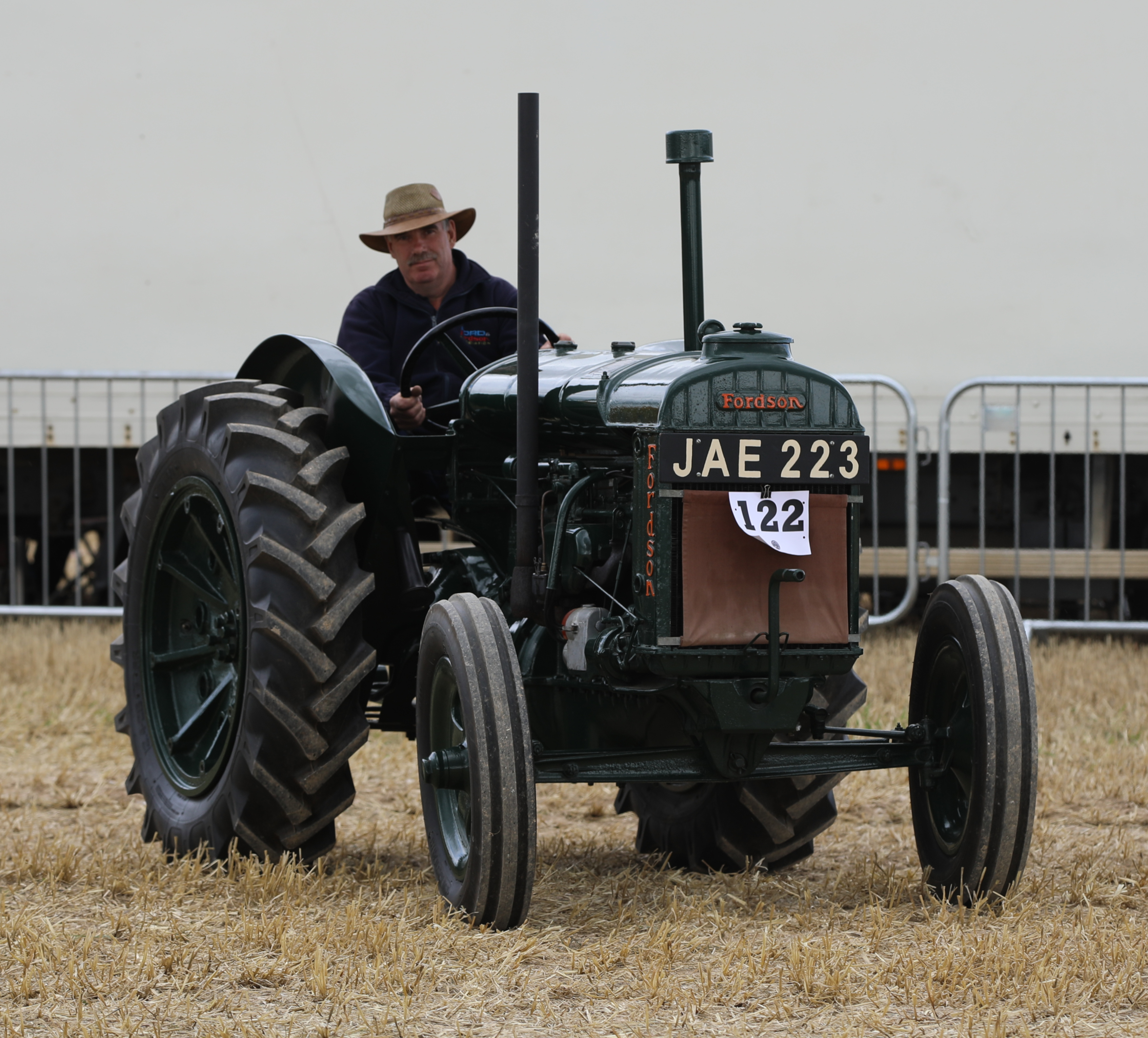 Photo of a Fordson N tractor used by the land army during ww2. 2018 GDSF program number 122